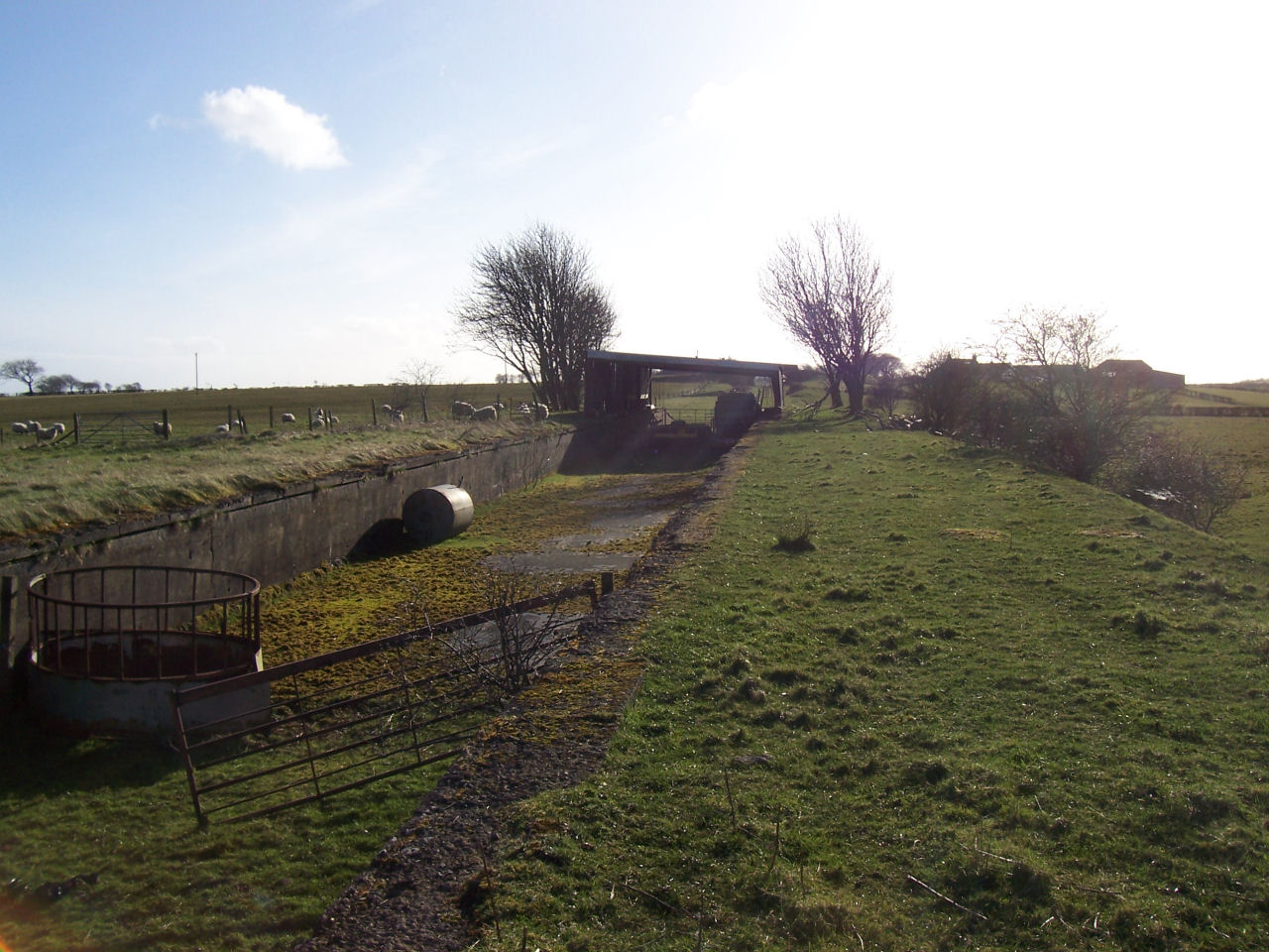 The remains of Auchenmade railway station in March 2007. Photo by Dreamer84.